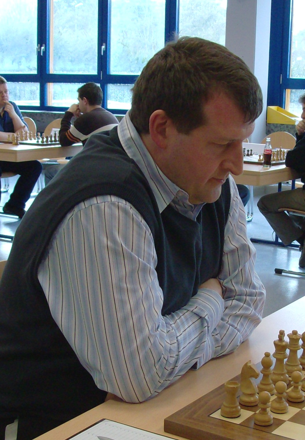 Henrik Teske, chess grandmaster from Germany